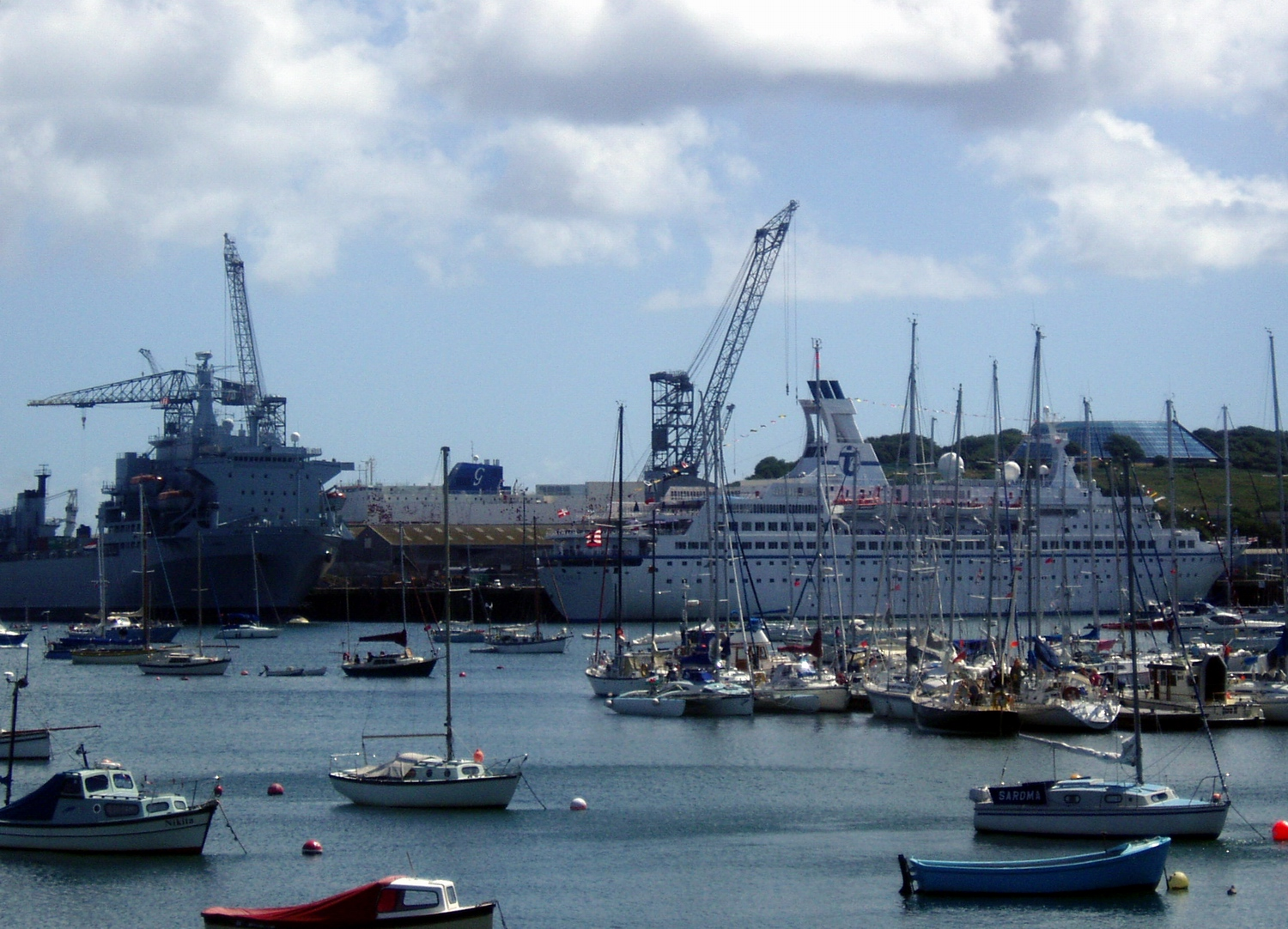 Falmouth Docks, Cornwall, United Kingdom